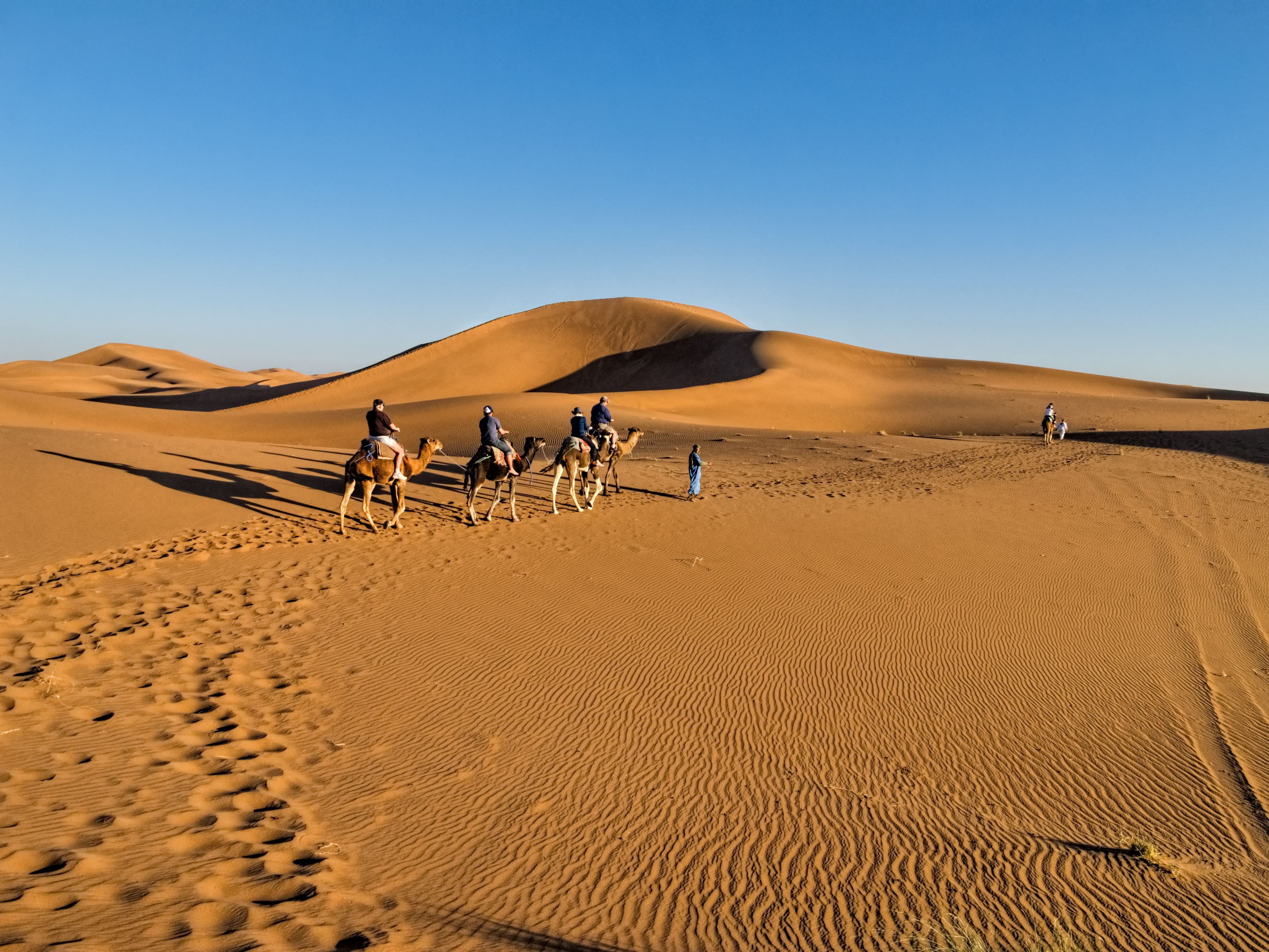 We head out into Sahara Desert sand dunes on camels. On Google Earth: Erg Chigaga 29°41'7.04"N, 5°59'35.78"W